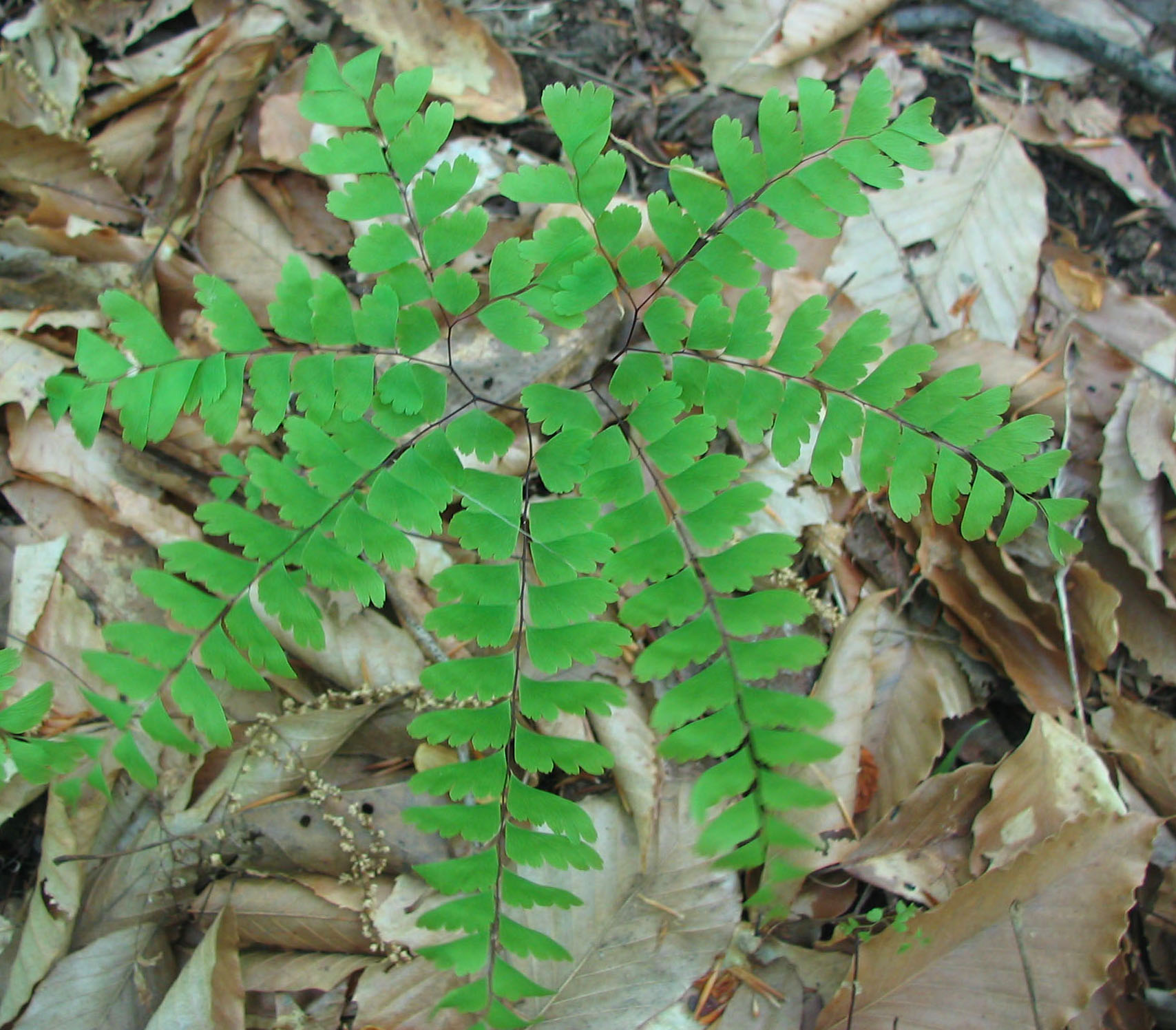 Adiantum pedatum (maidenhair fern) - foliage, top view